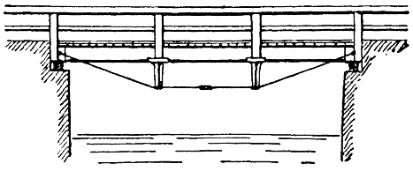 Wooden bridge. Armored beam